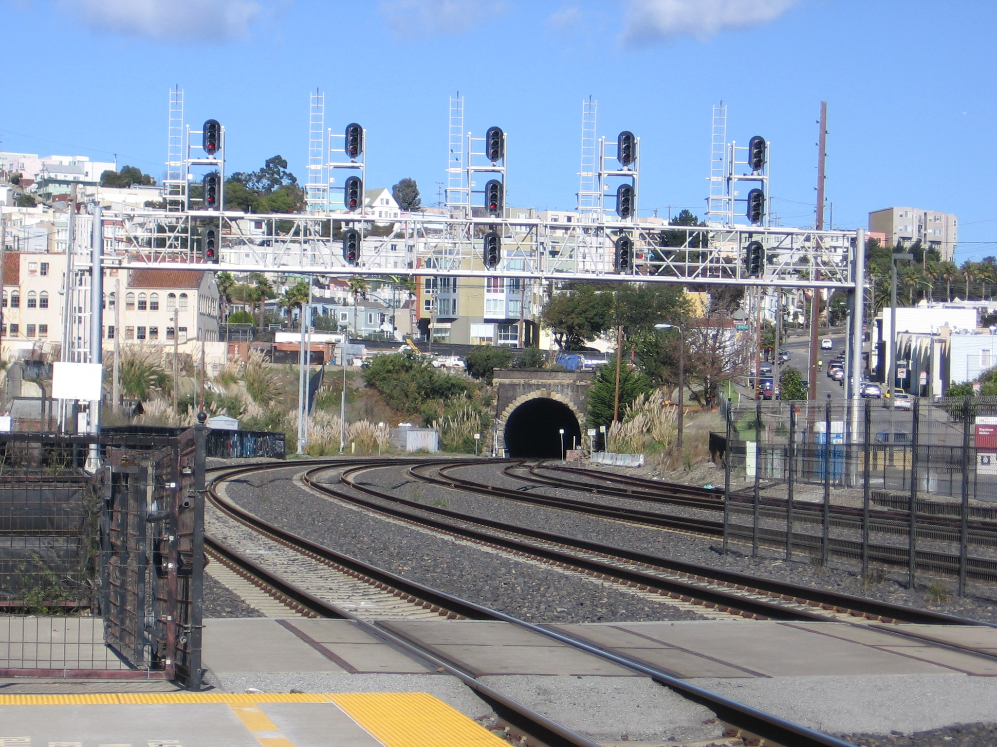 The south portal to Tunnel #4 from the western platform (where southbound trains usually stop) at the Bayshore (Caltrain station) in San Francisco and Brisbane, California, USA.